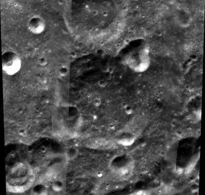 Riedel lunar crater - Clementine image